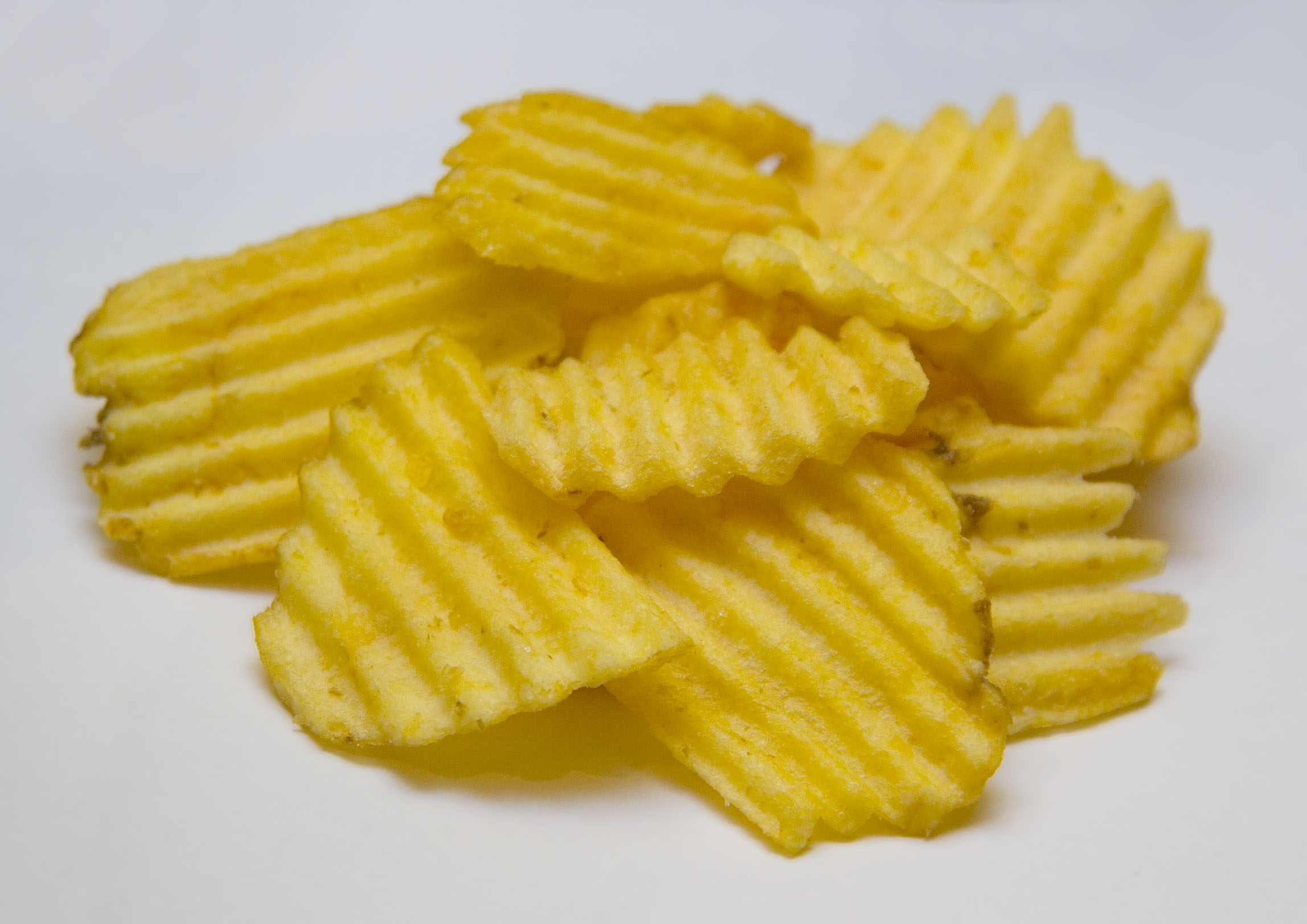 A Pile of The Real McCoy's Potato Chips - Really author?